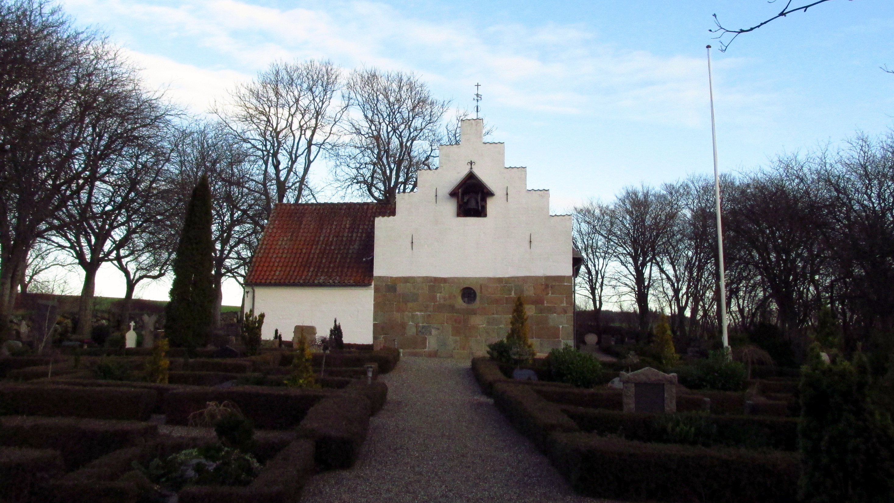 Church in Lillevorde, northern Denmark